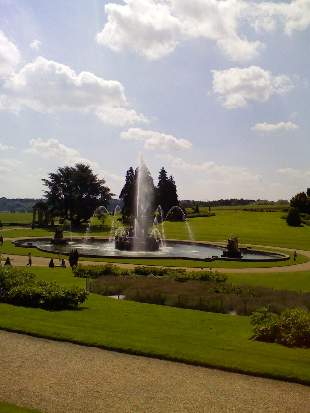 The Perseus and Andromeda Fountain — of the formal Witley Court Gardens section. Located in the 19th-century Witley Court landscape garden park, Worcestershire, England.